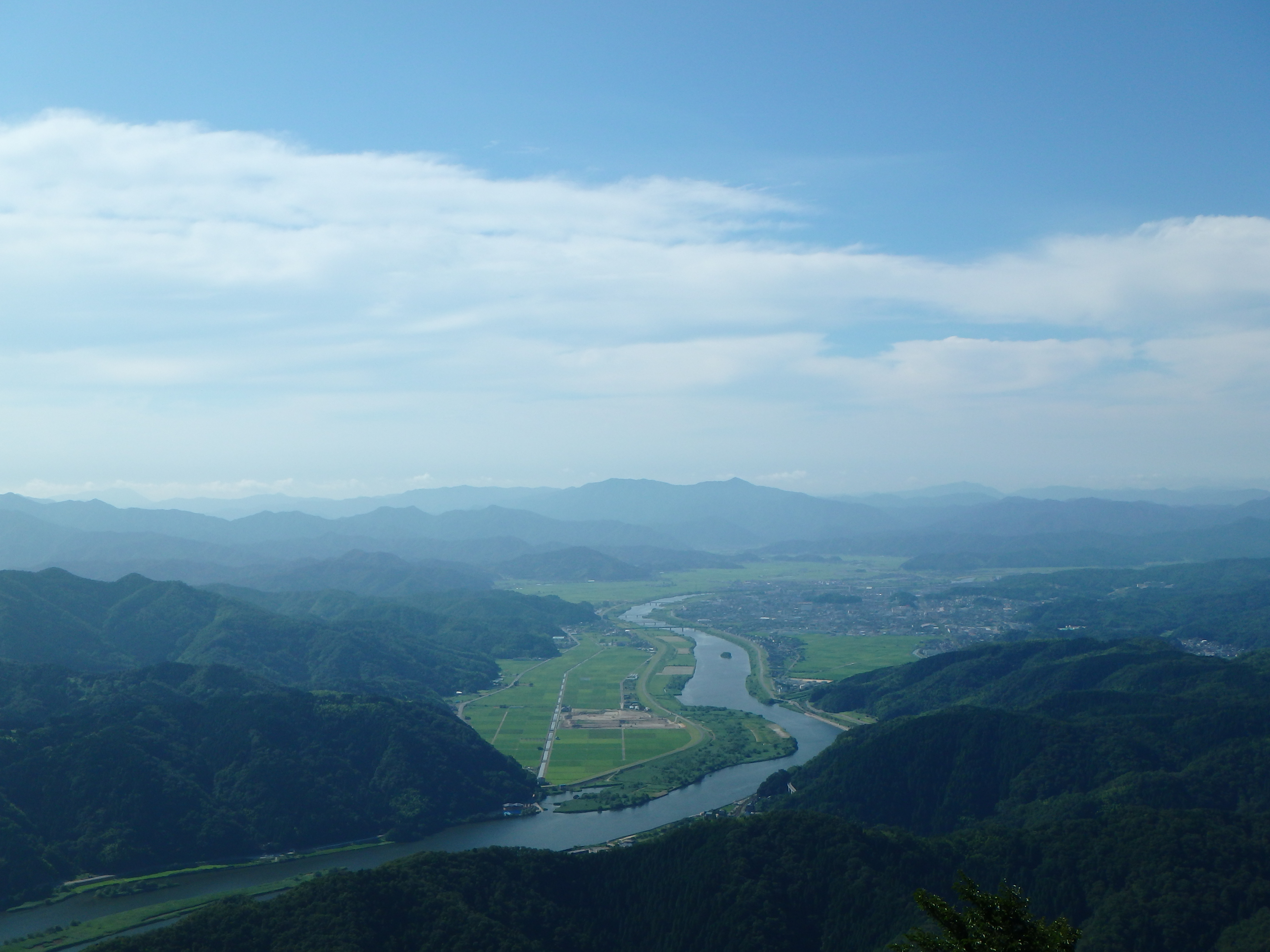 Looking the SSE from Mount Kuruhi. Toyooka Basin and downtown of Toyooka in the center.